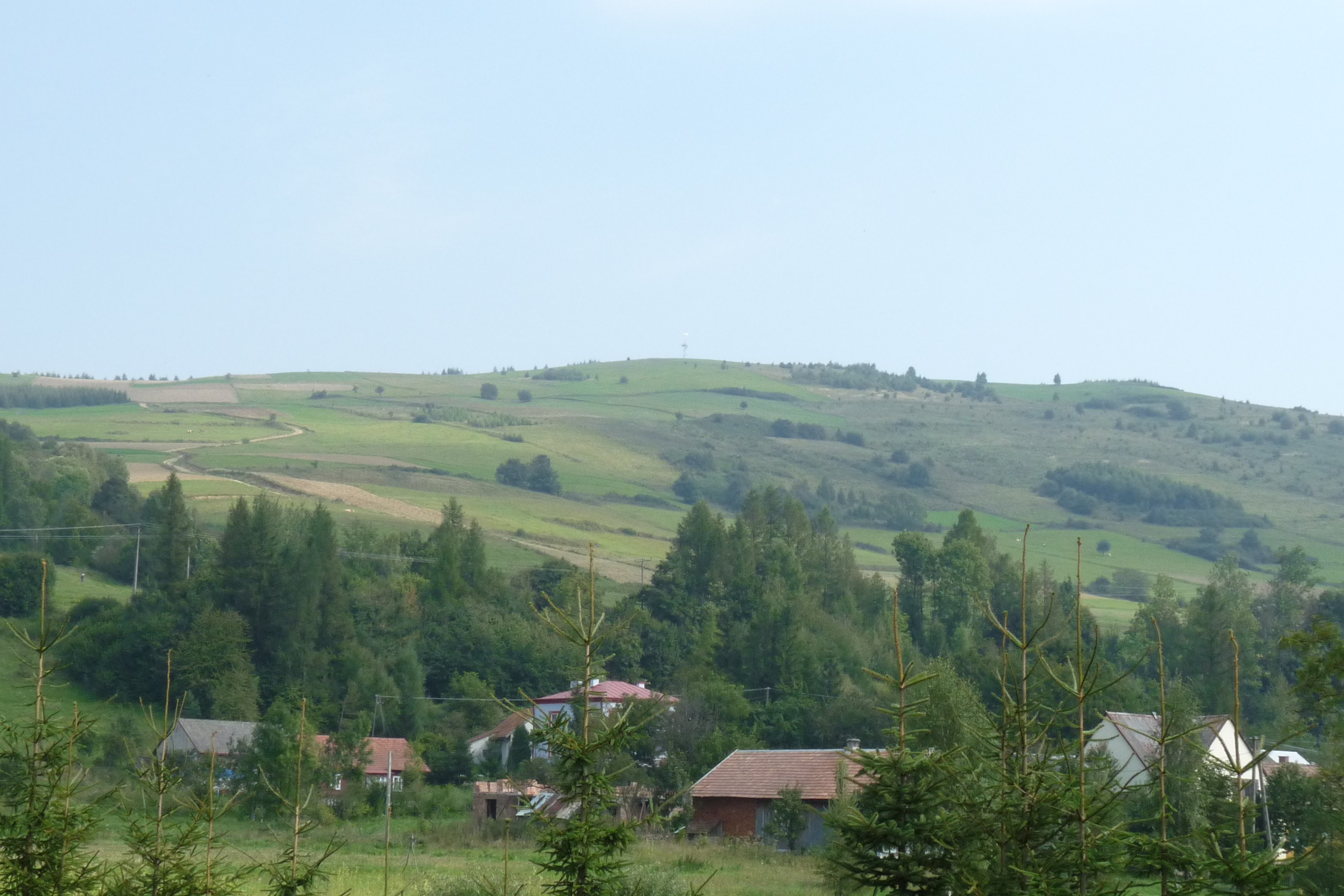 Grzywacka Góra